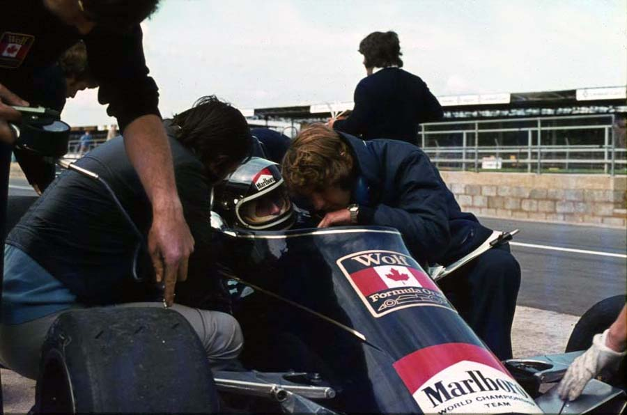 Jacky Ickx with Walter Wolf Racing at Silverstone